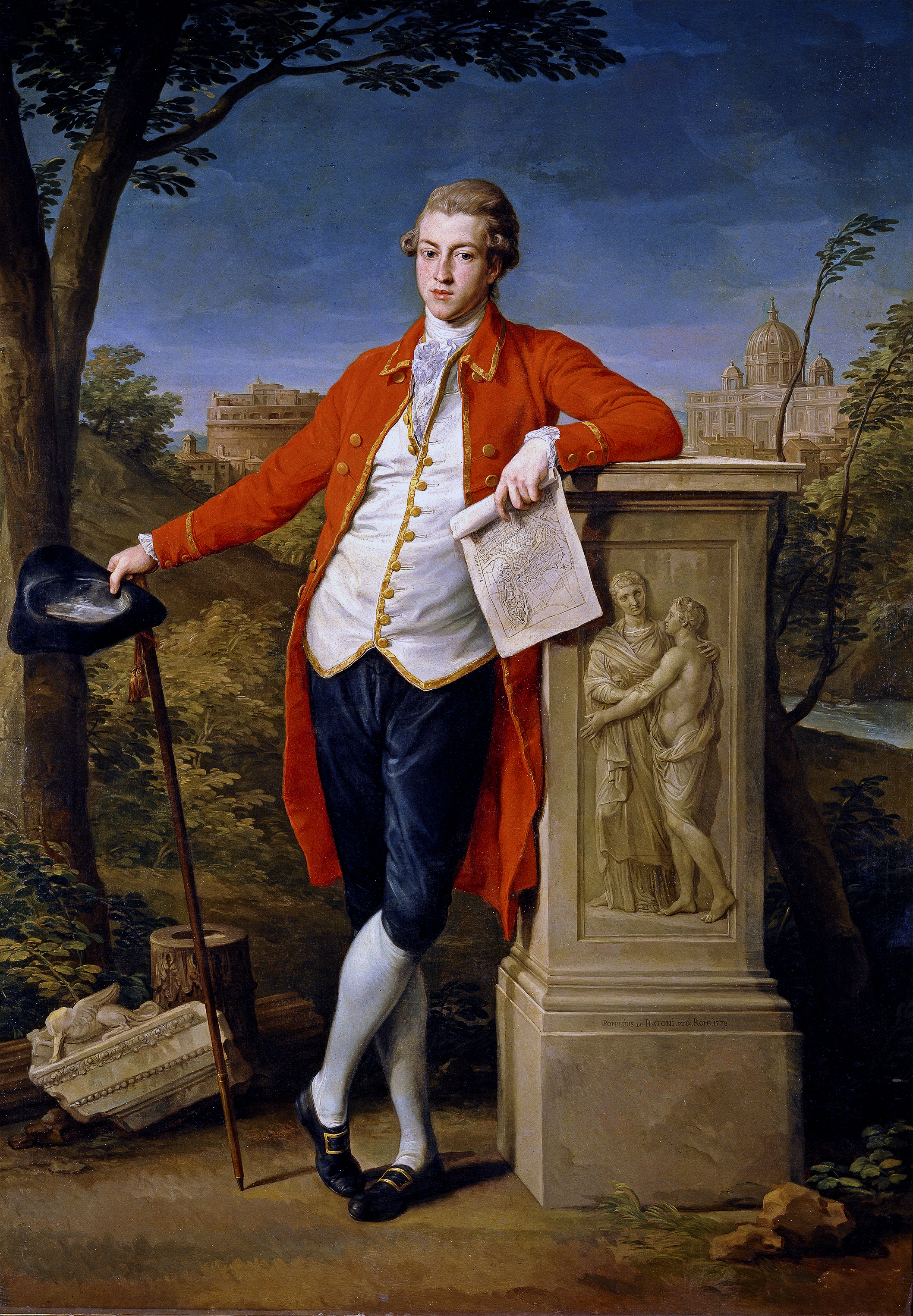 The future baron on the Grand Tour, with the Castel Sant'Angelo and St. Peter's Basilica in the background. The ancient Roman altar on which he leans is fictional, with a relief based on the sculptural group Orestes and Electra.